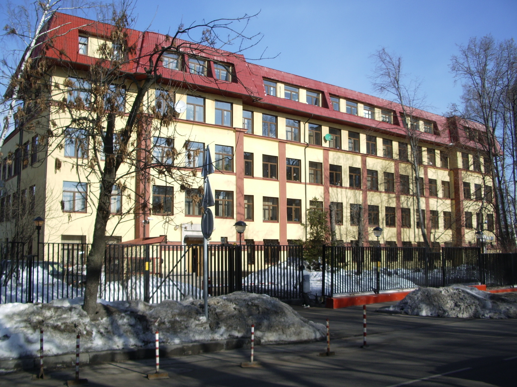 Kommersant publishing house headquarters in Moscow